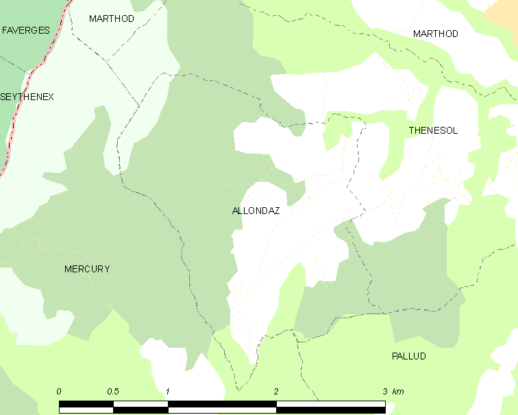 Map of French municipality